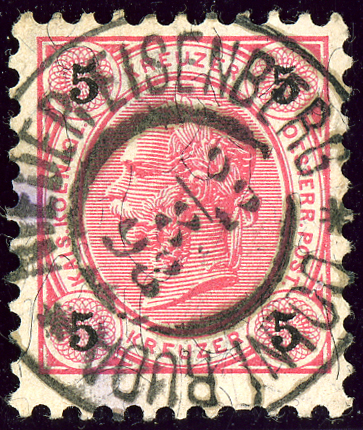 Austrian KK 5 kreuzer stamp, bilingual cancelled NIEDER EISENBERG - DOLNI RUDA in 1898, Moravia - Klein gDJ**